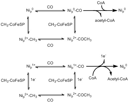 Acetyl-CoA Synthase proposed mechanisms (Paramagentic and diamagnetic)